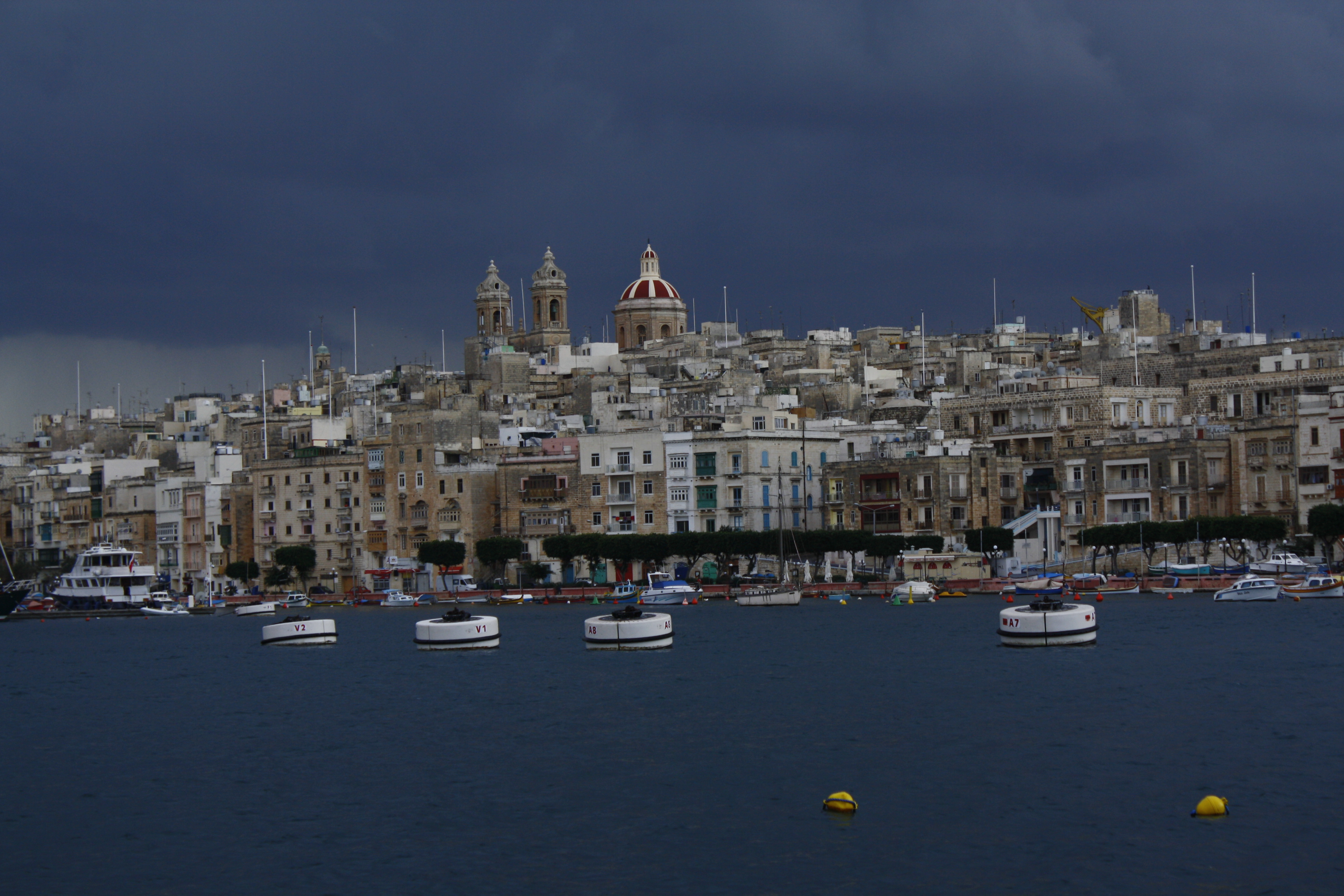 A view of Senglea from Birgu